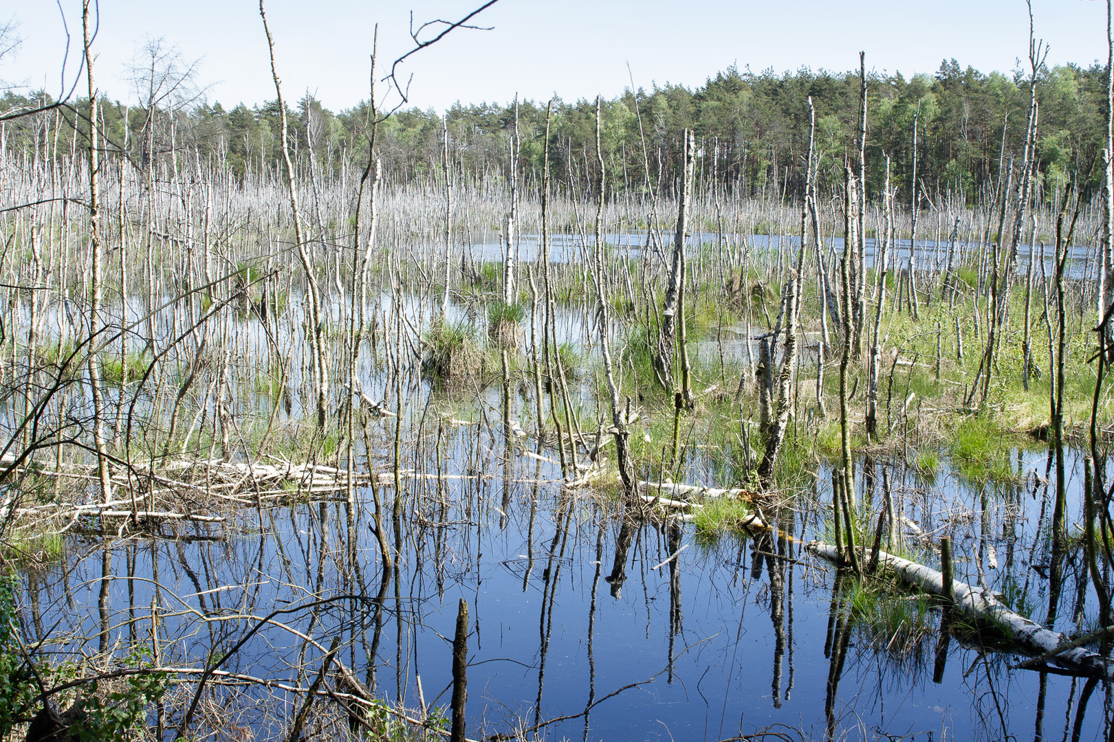 The peat bog "Biały Ług" west of Góraszka. Aleksandrów, Wawer, Warsaw, Poland. This is a photography of protected area with CRFOP ID PL.ZIPOP.1393.PK.72